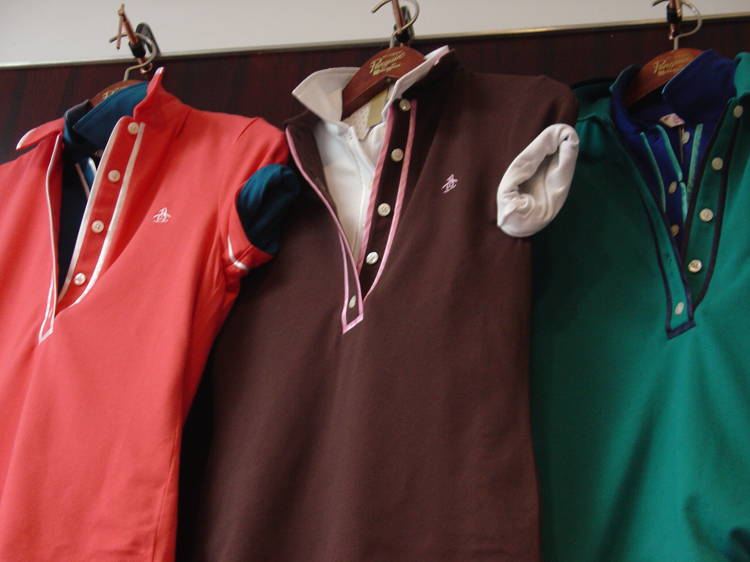 Women's Penguin brand shirts from L.A. Penguin store (2009). Photo by ChildofMidnight. Attirbution required.